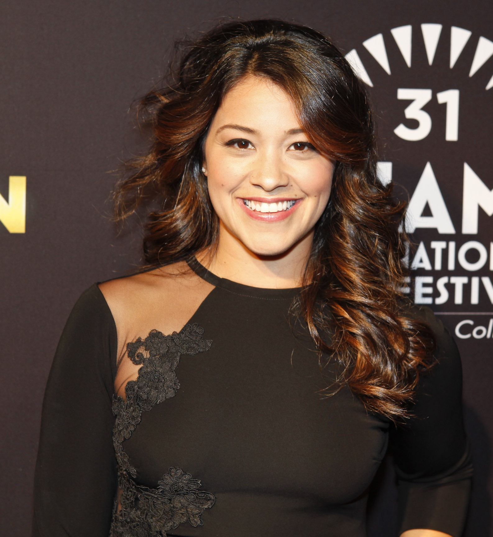 FILLY BROWN Red Carpet at Regal Cinemas South Beach, April 9, 2013